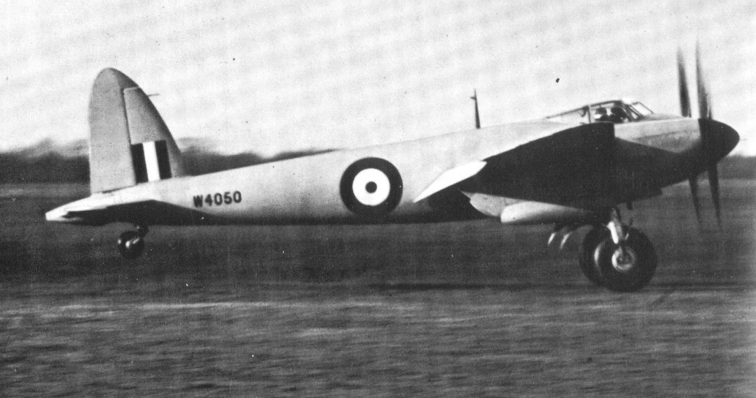 De Havilland Mosquito prototype. Photo by British RAF during maiden flight on November 25, 1940.